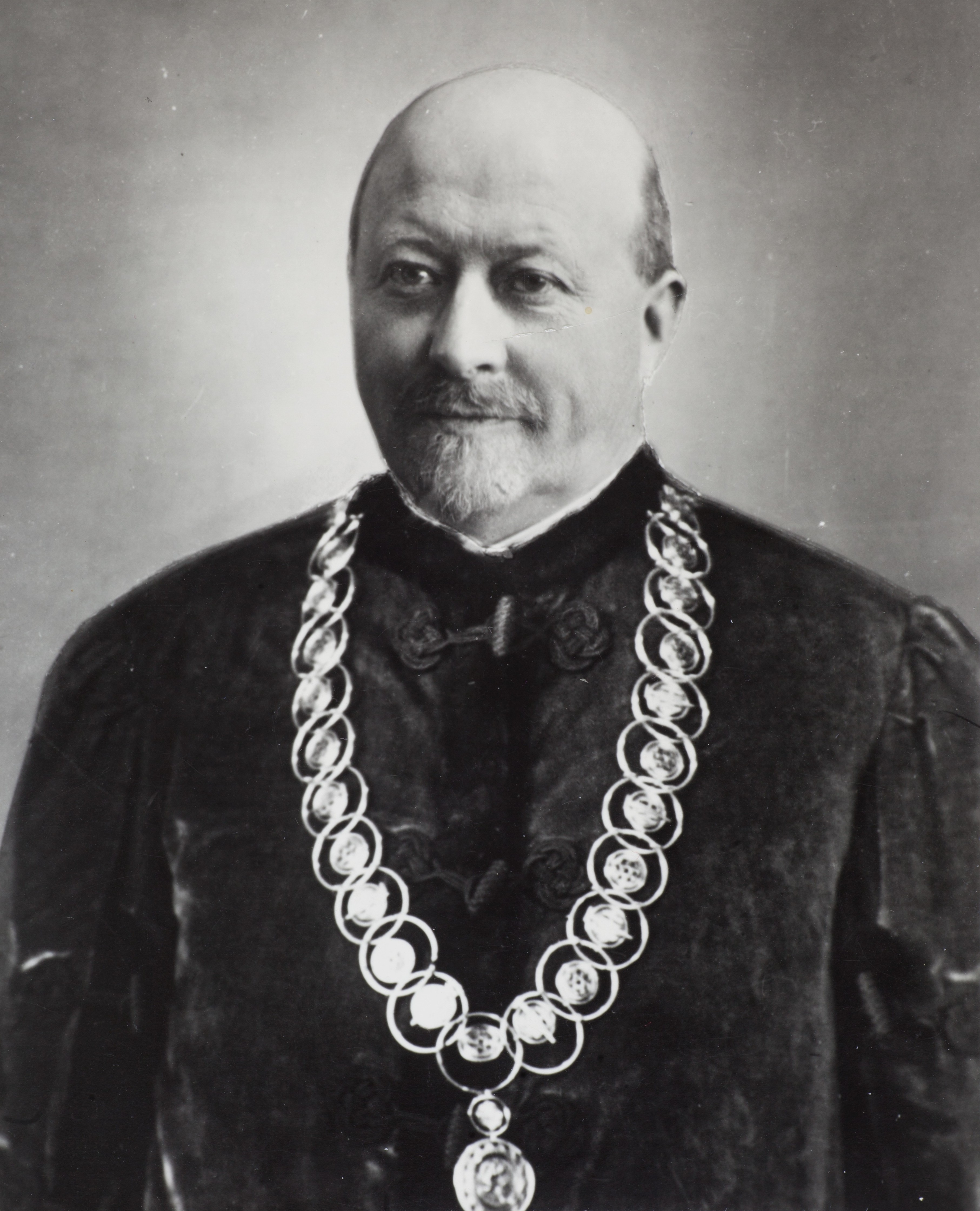 Portrait of Rector and Professor at Norway technical institute (NTH) Olav Heggstad. (1877-04-05 - 1954-02-05).